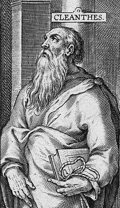 Detail of the of the philosopher Cleanthes from the title page of L. Annaei Senecae philosophi Opera, quae exstant omnia, a Iusto Lipsio emendata, et scholijs illustrata. Engraved by Theodoor Galle from a design by Peter Paul Rubens. First version printed in 1605, reprinted in 1615.